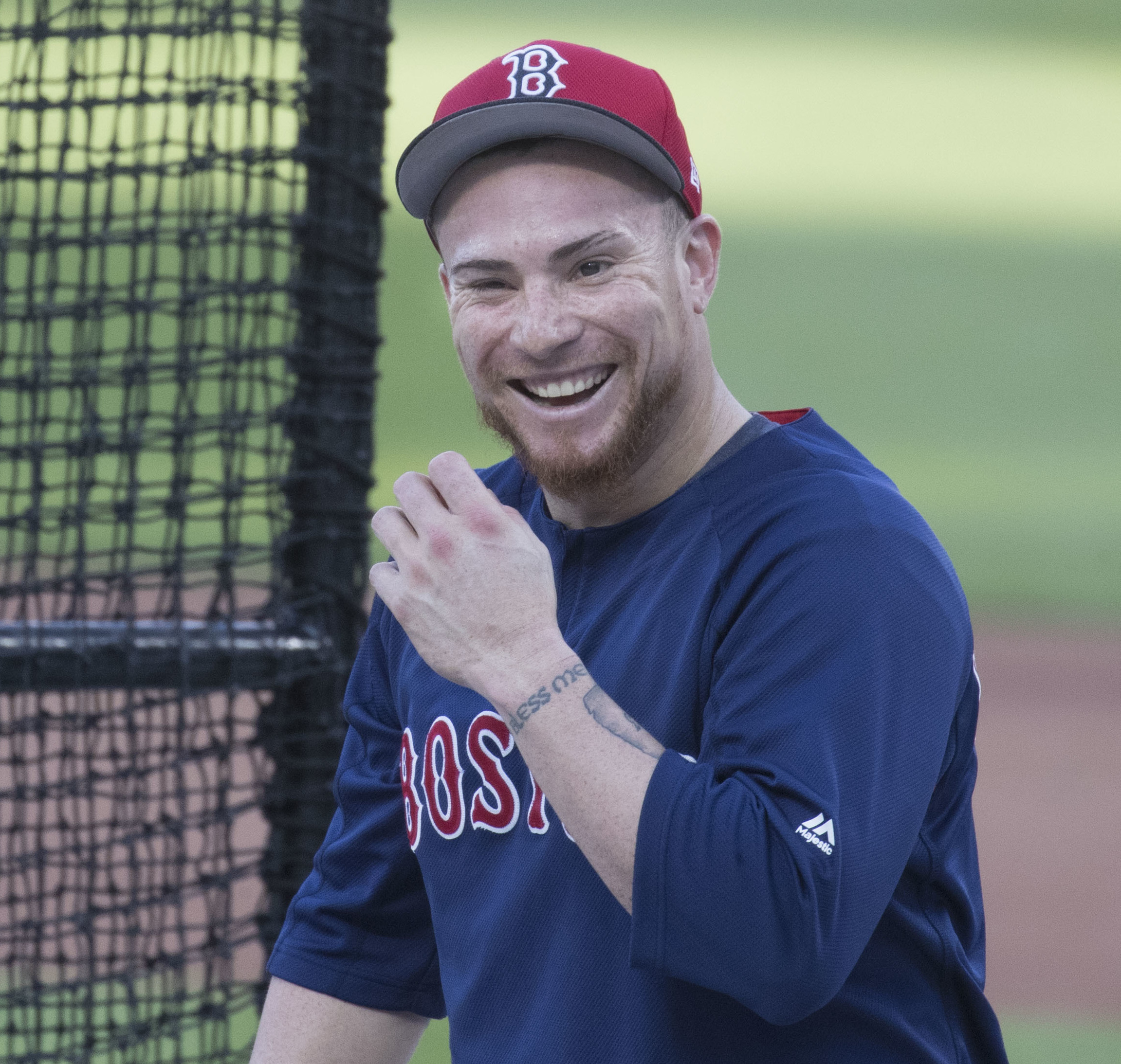 Red Sox at Orioles 9/20/17